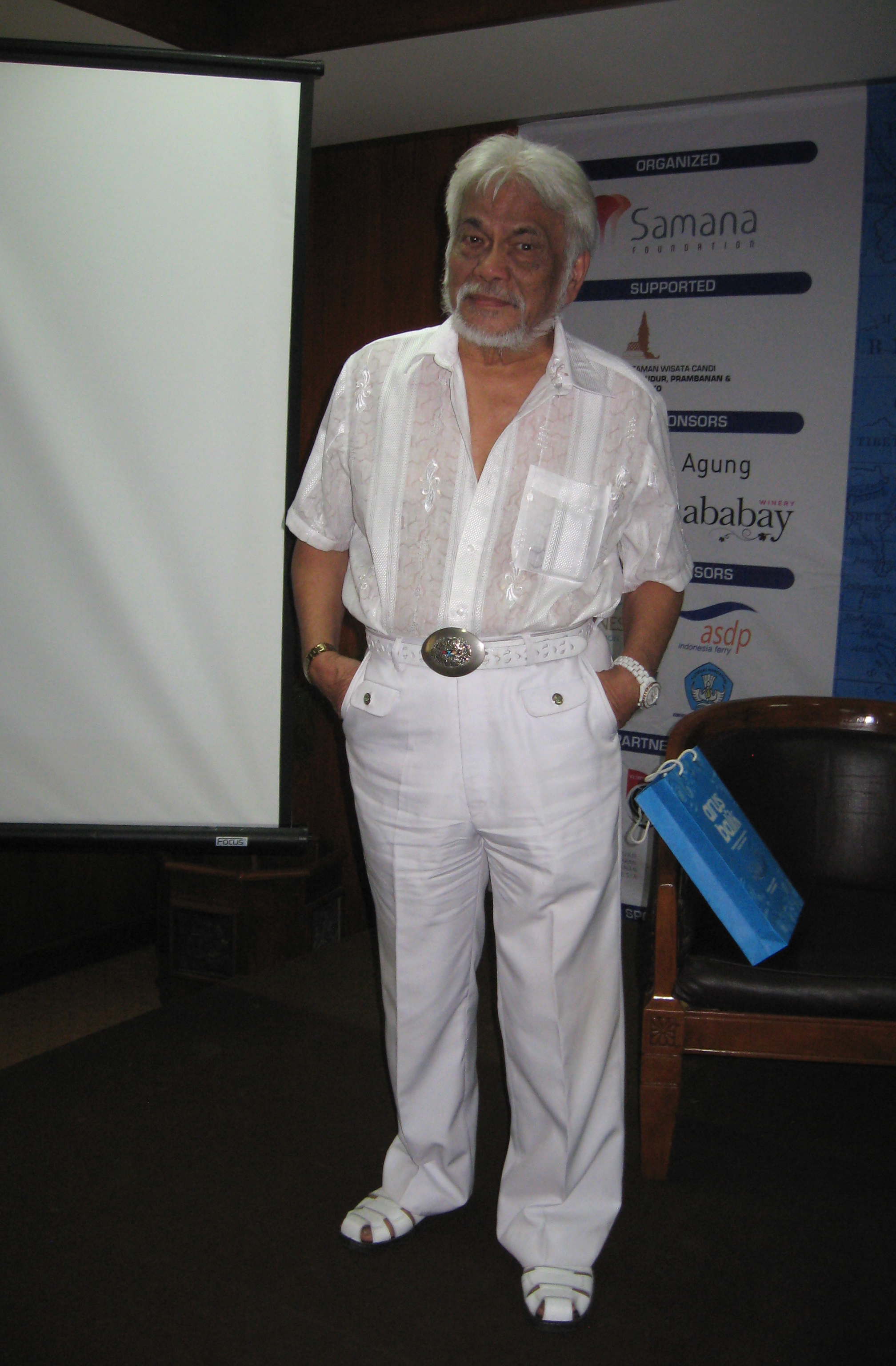 Remy Sylado (Yapi Panda Abdiel Tambayong) speaking at the 2013 Borobudur Writers and Cultural Festival.